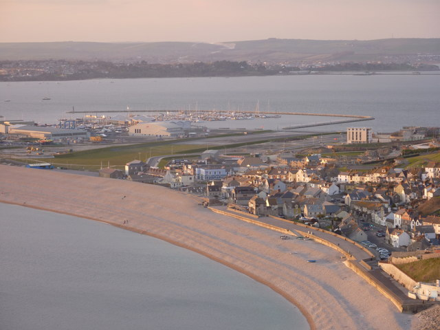 Chiswell from the Cliffs 1